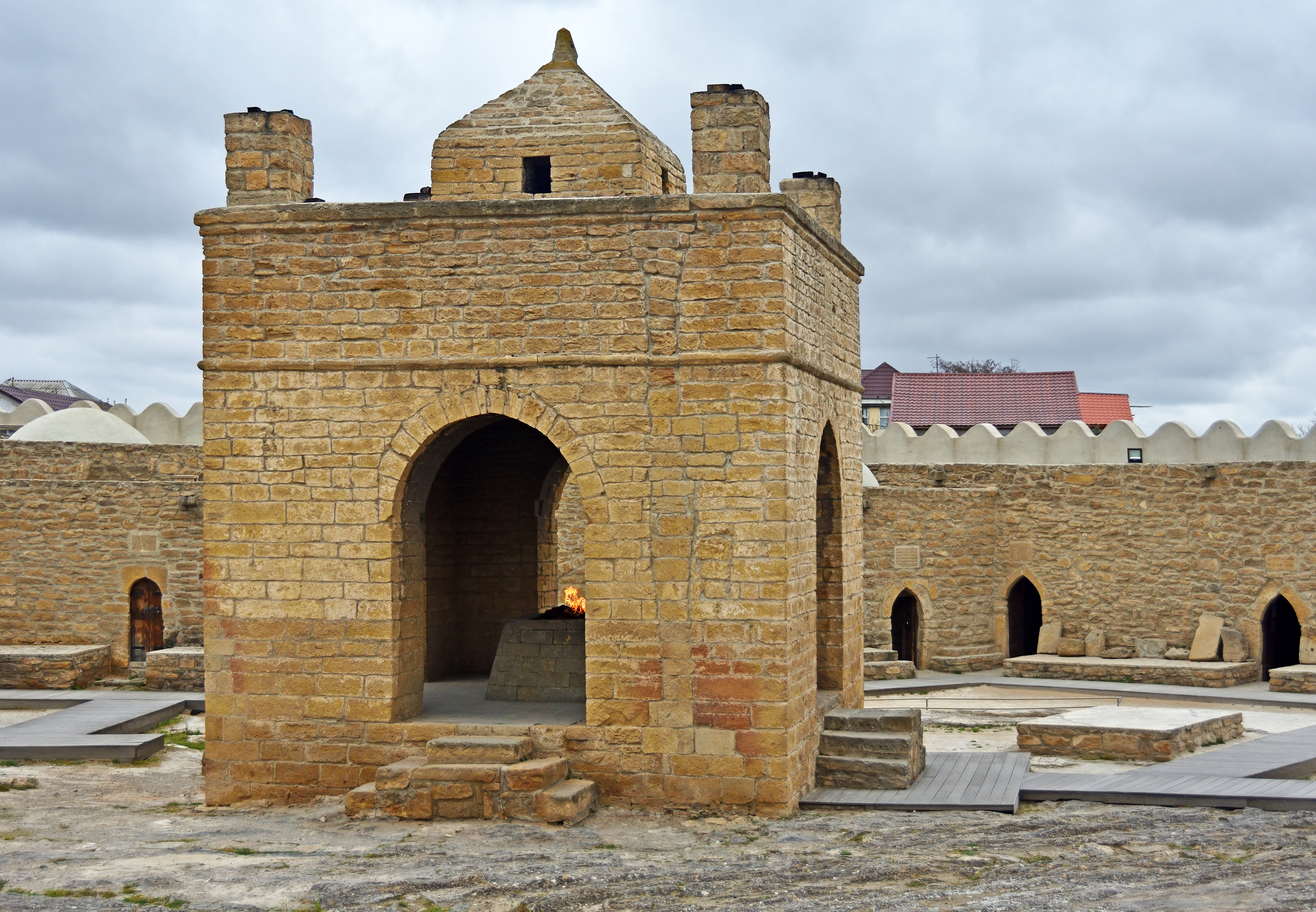 Ateshgah of Baku, Azerbaijan